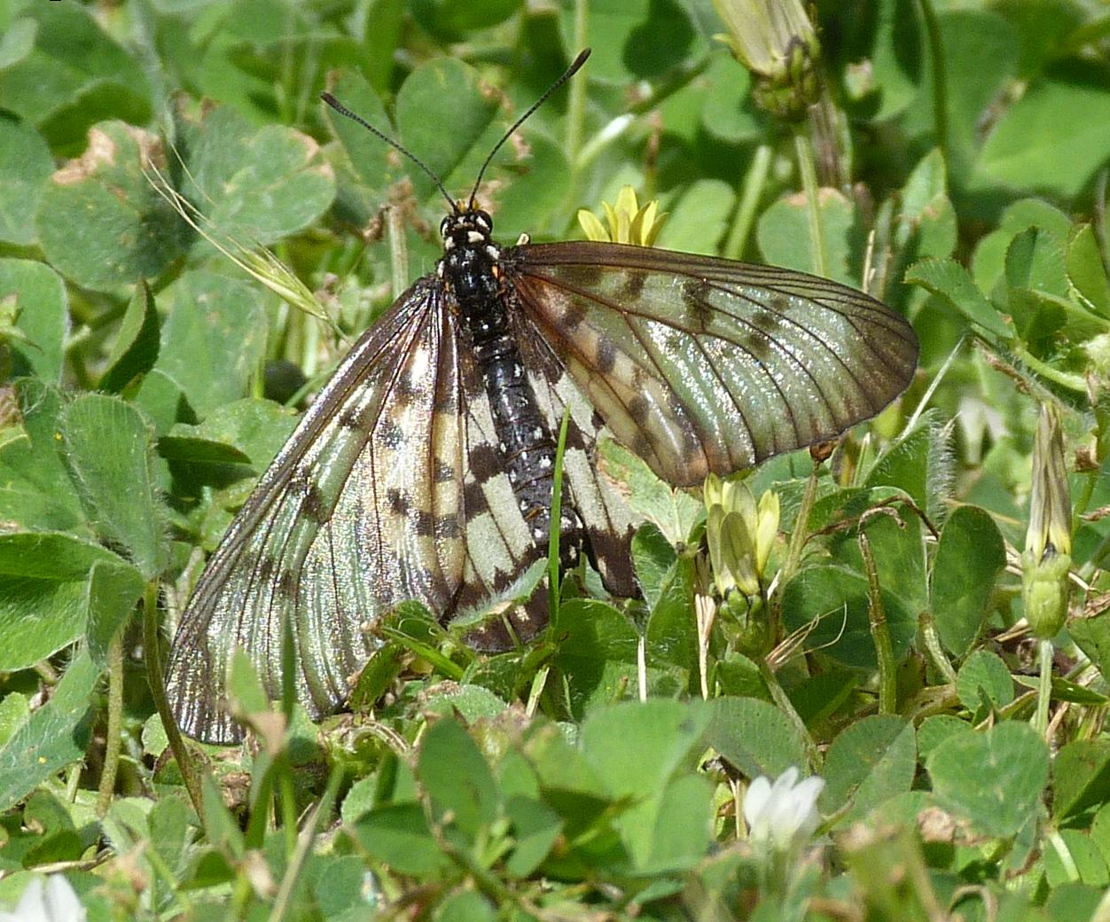 Acraea andromacha (Fabricius, 1775), Black Mountain, Canberra, ACT, 17 November 2010 Quite battered and it didn't sit still for long. I saw another in Aranda the next day.